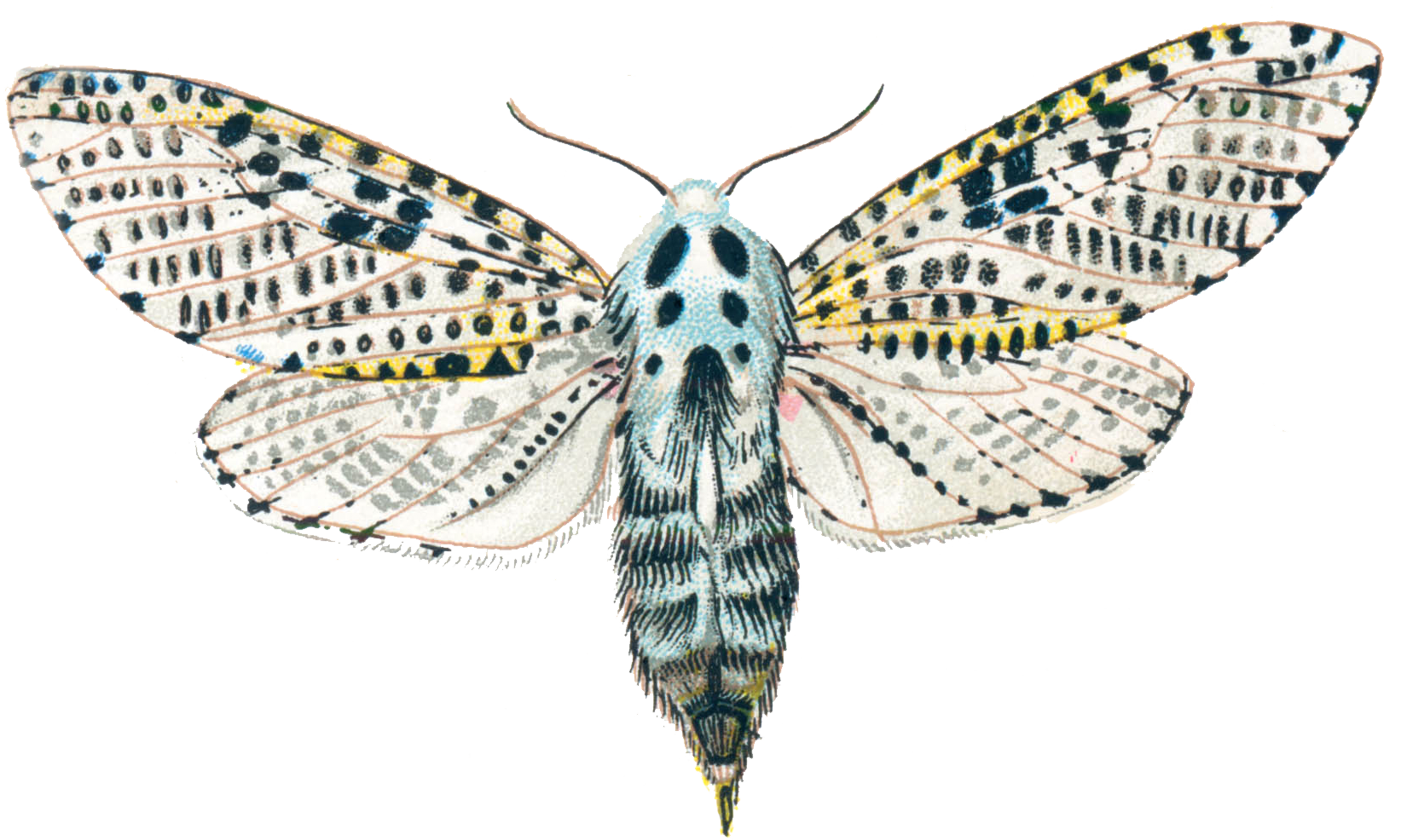 Leopard Moth